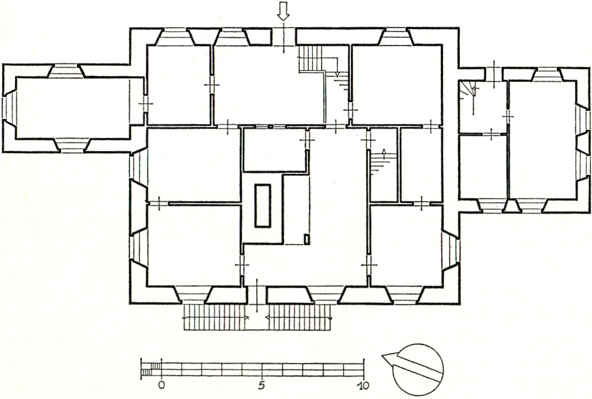 Historic reeve's domicile at Gummersbach, Germany. Plan of first floor.